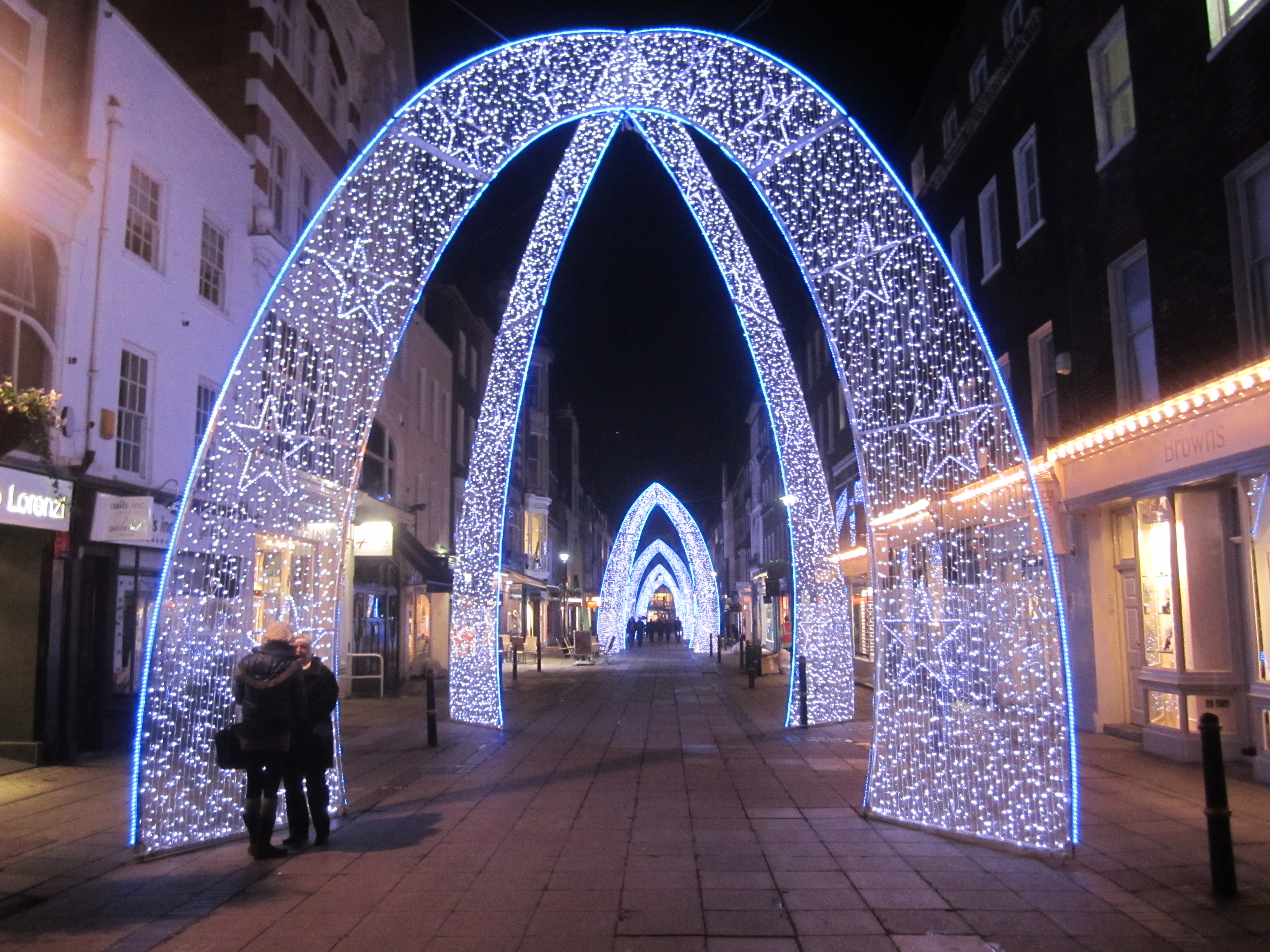 Christmas lights on South Molton St., London. November 2011.